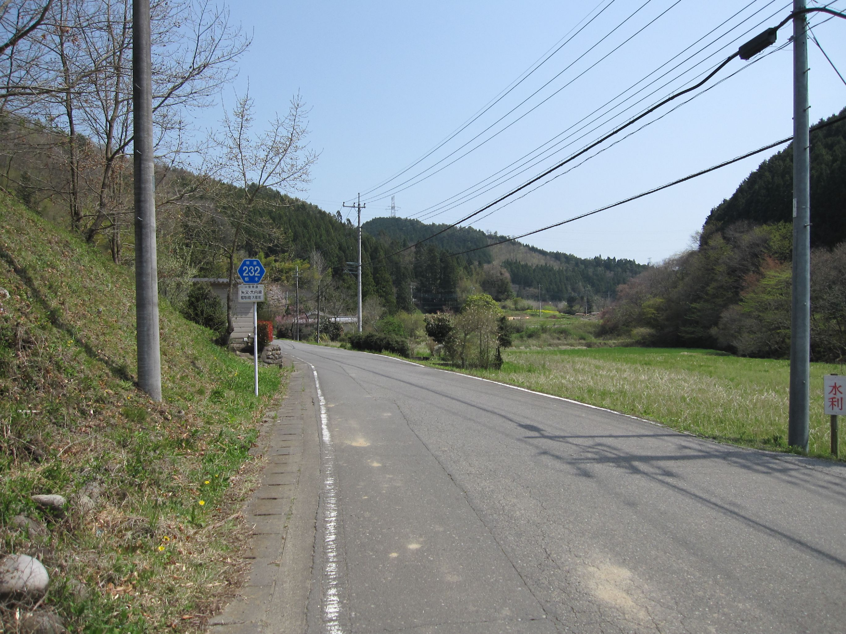 Tochigi prefectural road No.232 on Nakagawa town